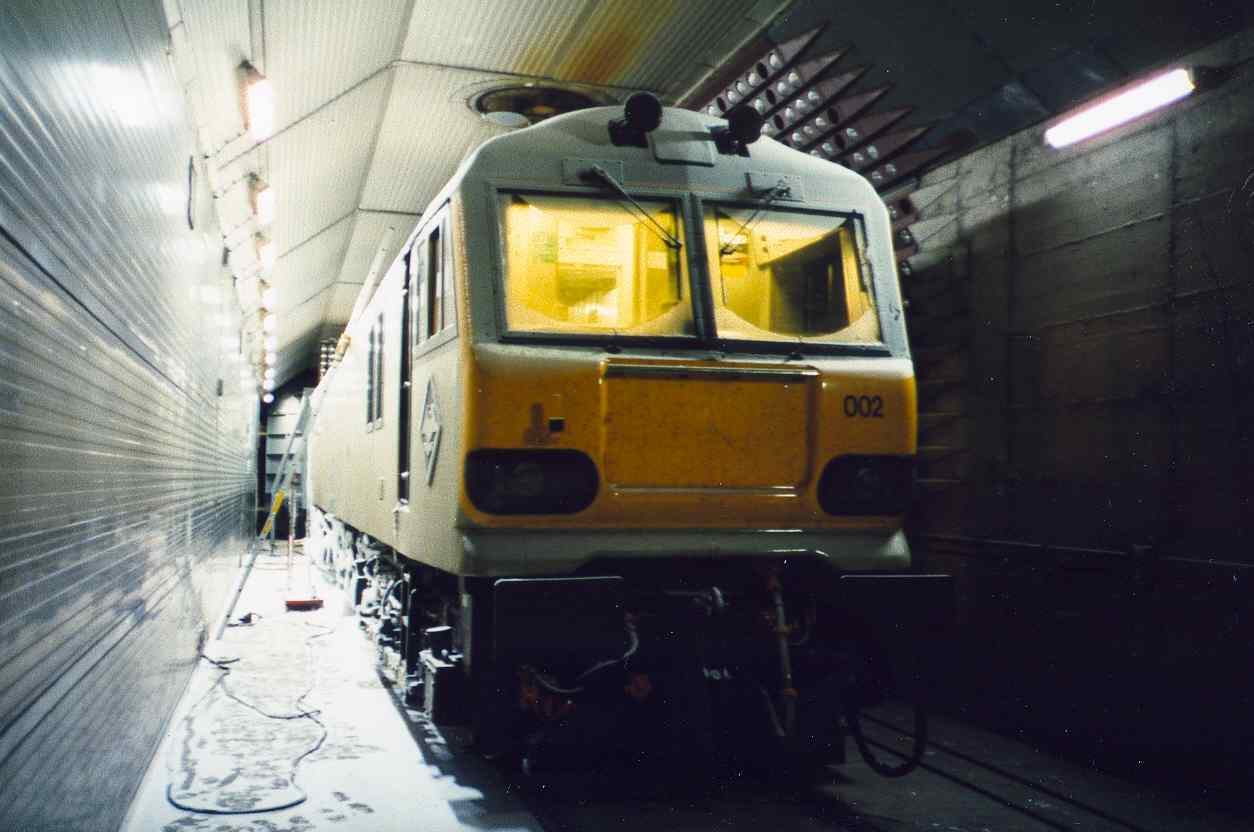 British Rail locomotive 92002 at Rail Tec Arsenal in Vienna, Austria, undergoing cold weather testing (-25 °C)